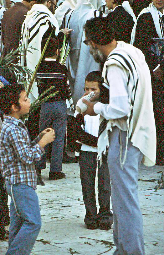 Jewish holidays